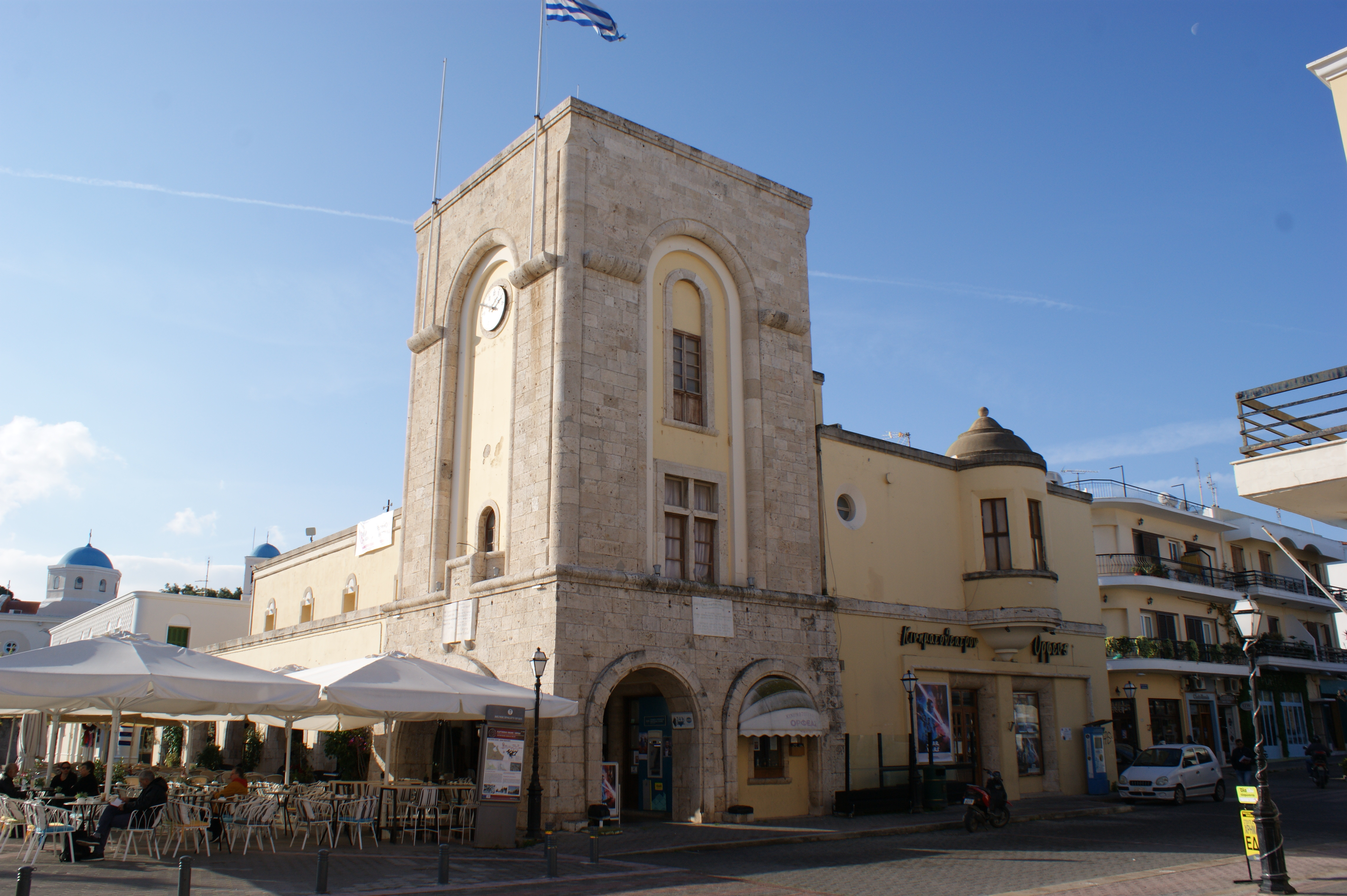 Eleftherias Square (also in Greek: Πλατεία Ελευθερίας, Platía Eleftherías, Turkish: Hürriyet Meydanı, Liberty Square) in the city of Kos on the Greek island of Kos. On the picture, the former house of the (Italian) fascists (Casa del Fascio).